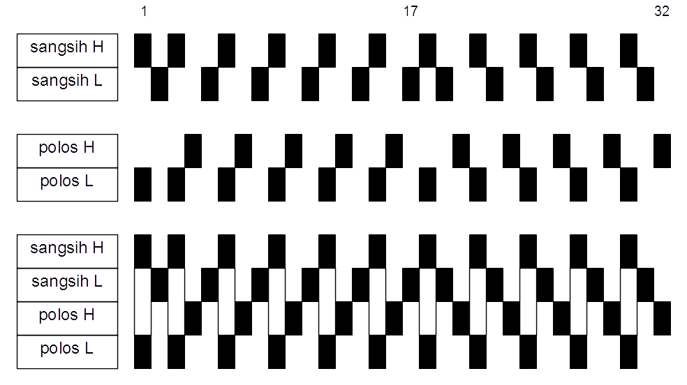 Image after Spiller, Henry (2004). The Traditional Sounds of Indonesia, Volume 1: Gamelan, p.123. ABC-CLIO. ISBN 9781851095063. Sangsih is the higher part, polos is the lower part, combined they form kotekan empat (empat means four, and refers to the number of different notes: two in each part, four total). The outside notes are always played together, and their coincidence is marked.